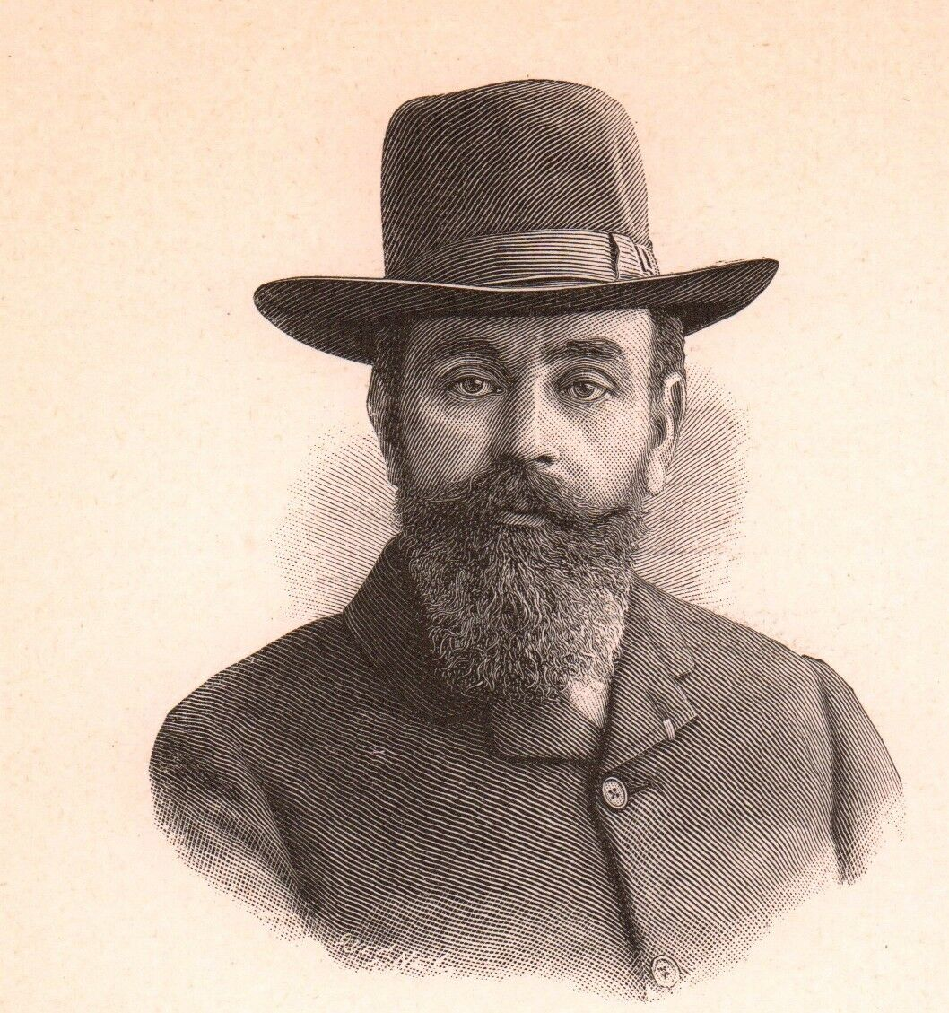 French playwright Georges Ancey (1860-1917)